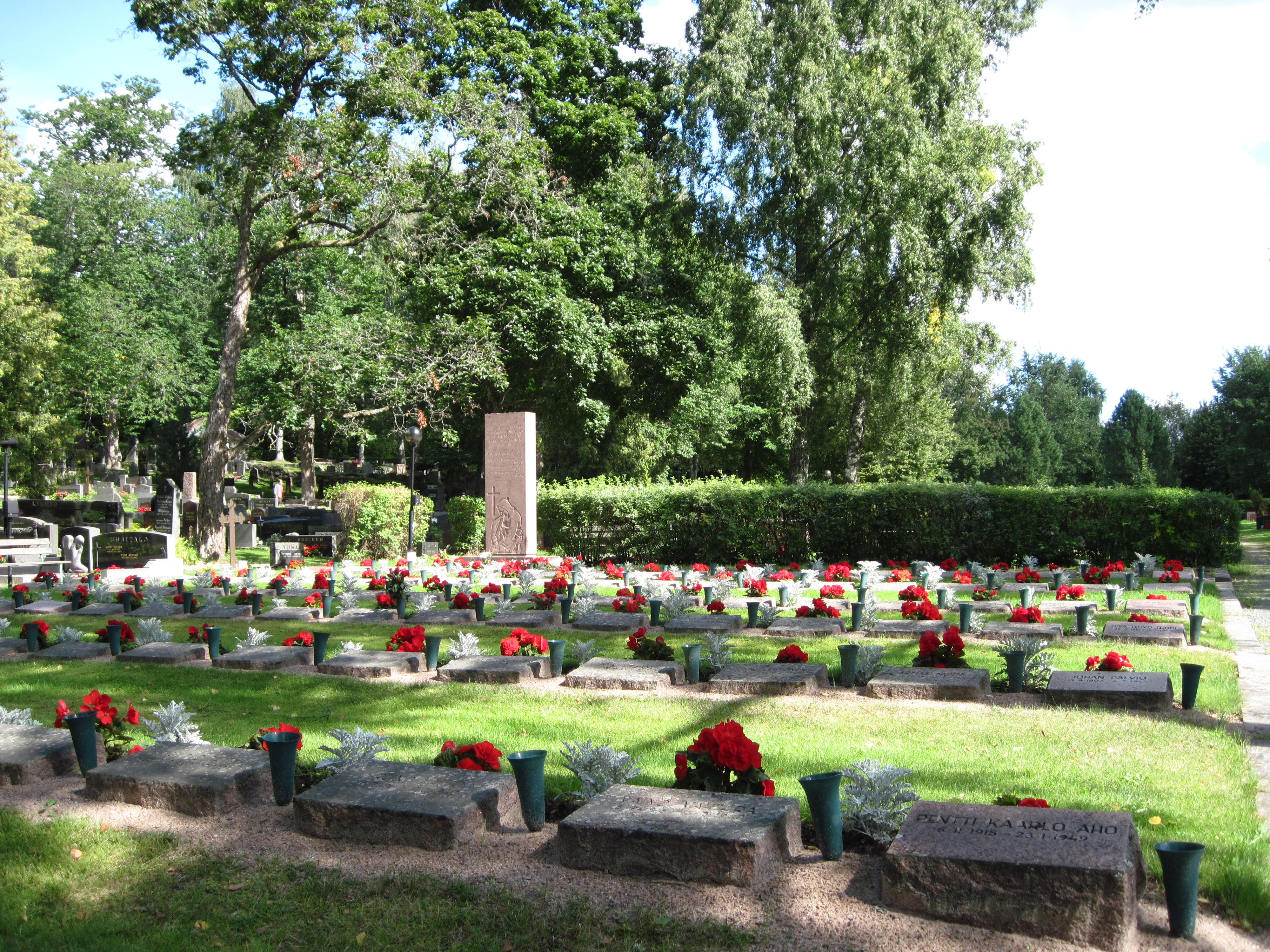 Military cemetary at church in Kisko, Finland